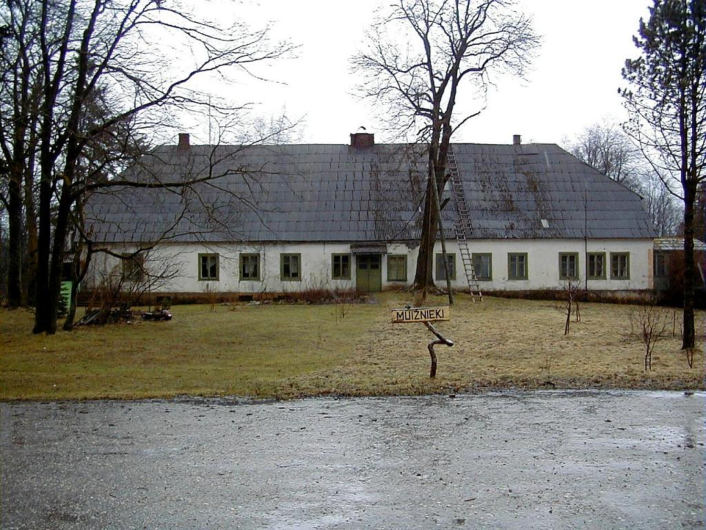 Balgaln manor